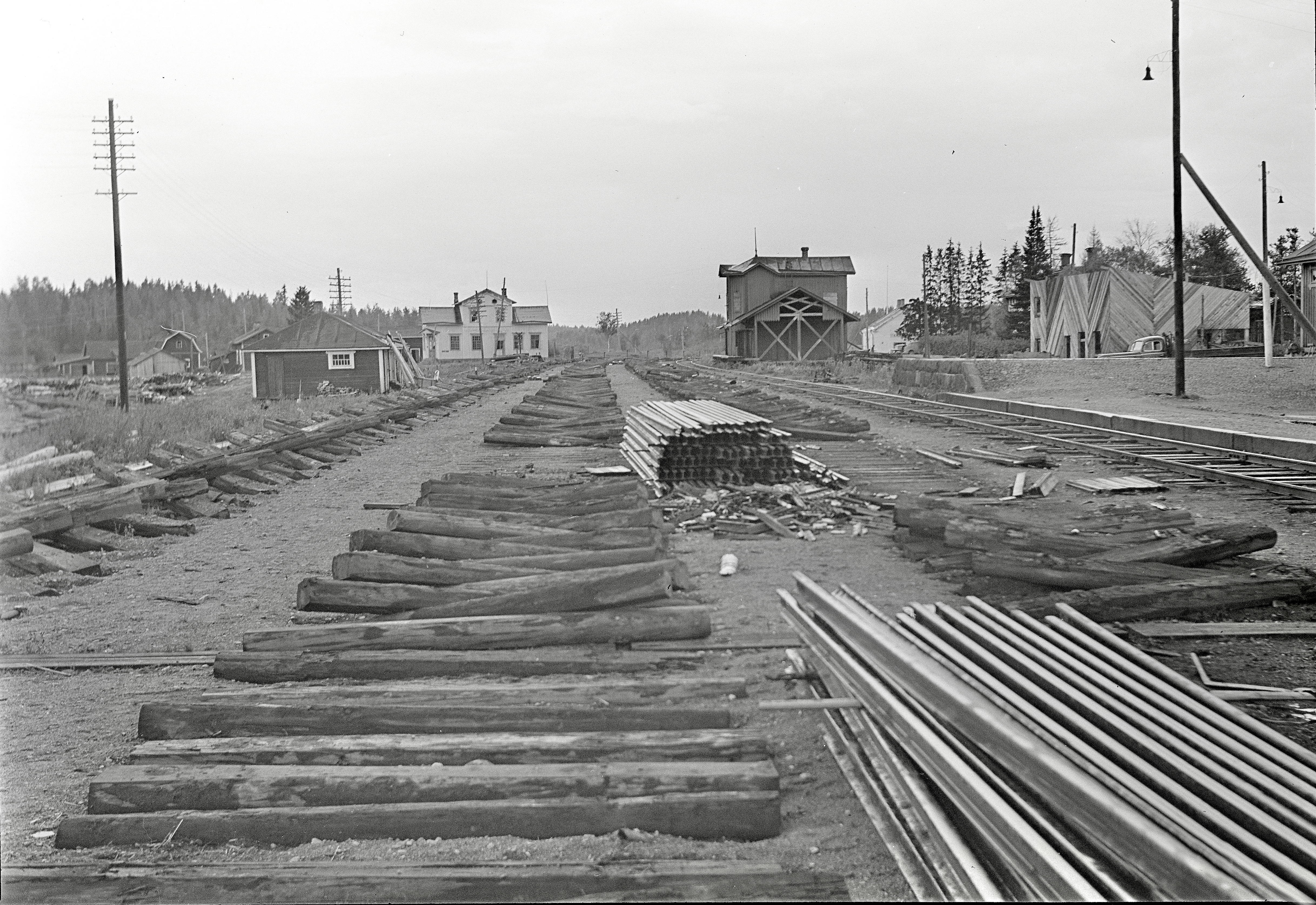 Ryssn purkamaa ratapihaa Ojajrven asemalla.